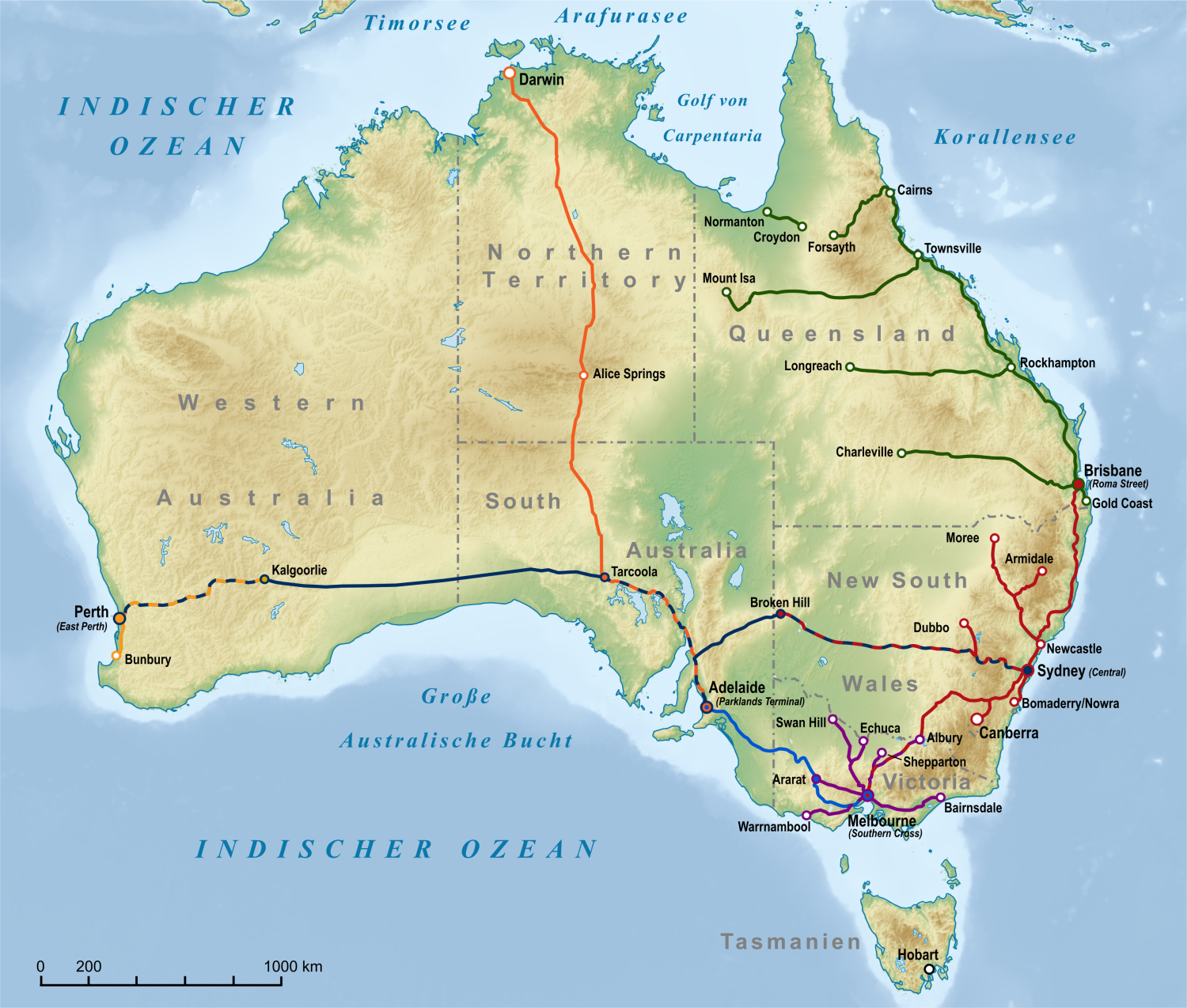 Map of the Passenger rail services in Australia. State Government owned rail services Queensland Rail Traveltrain and City services (Queensland). Sydney Trains and NSW TrainLink services (New South Wales). V/Line services (Victoria). Transwa services (Western Australia). Great Southern Railway lines Indian Pacific The Overland The Ghan